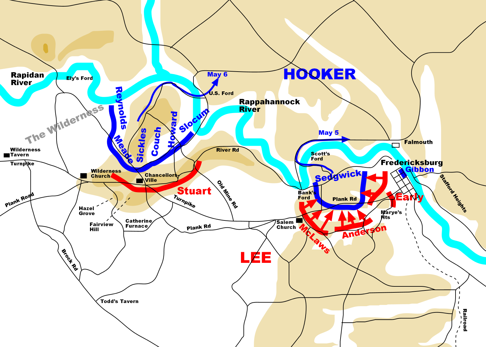 map of Chancellorsville battle 3/3 by User:Hlj This version has been replaced on the English Wikipedia with the file "Chancellorsville May4-6.png"